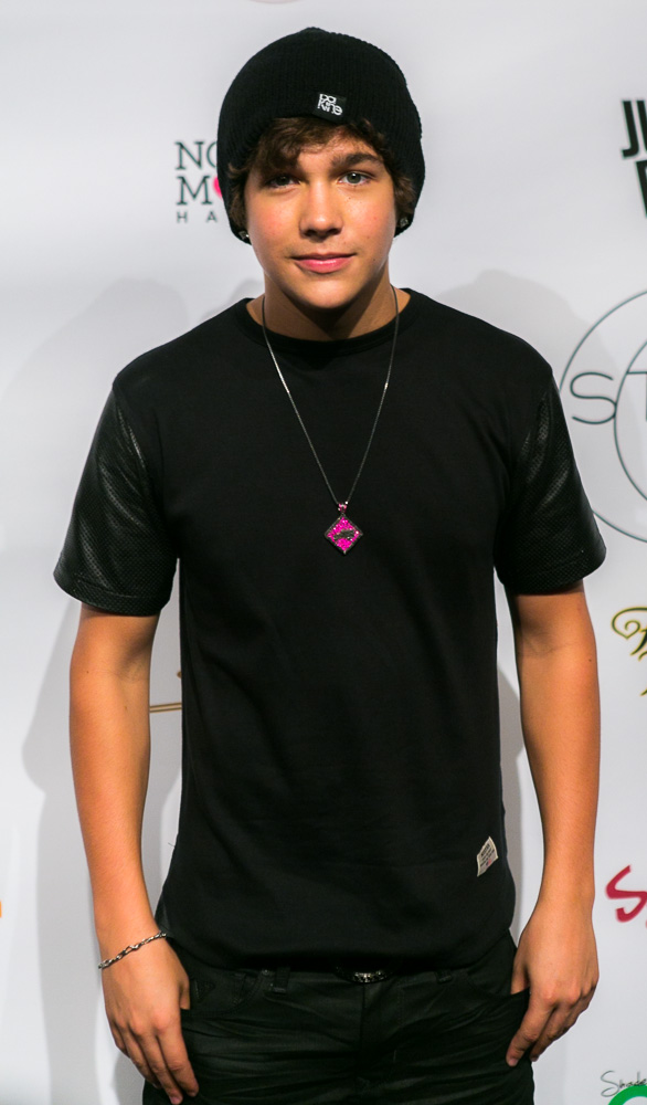 Austin Mahone at a Style 360 Fashion Show in 2013 by Sachyn Mital